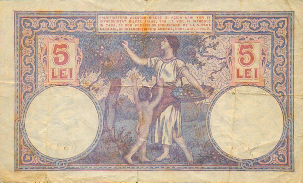 Scanned. Source : National Bank of Romania